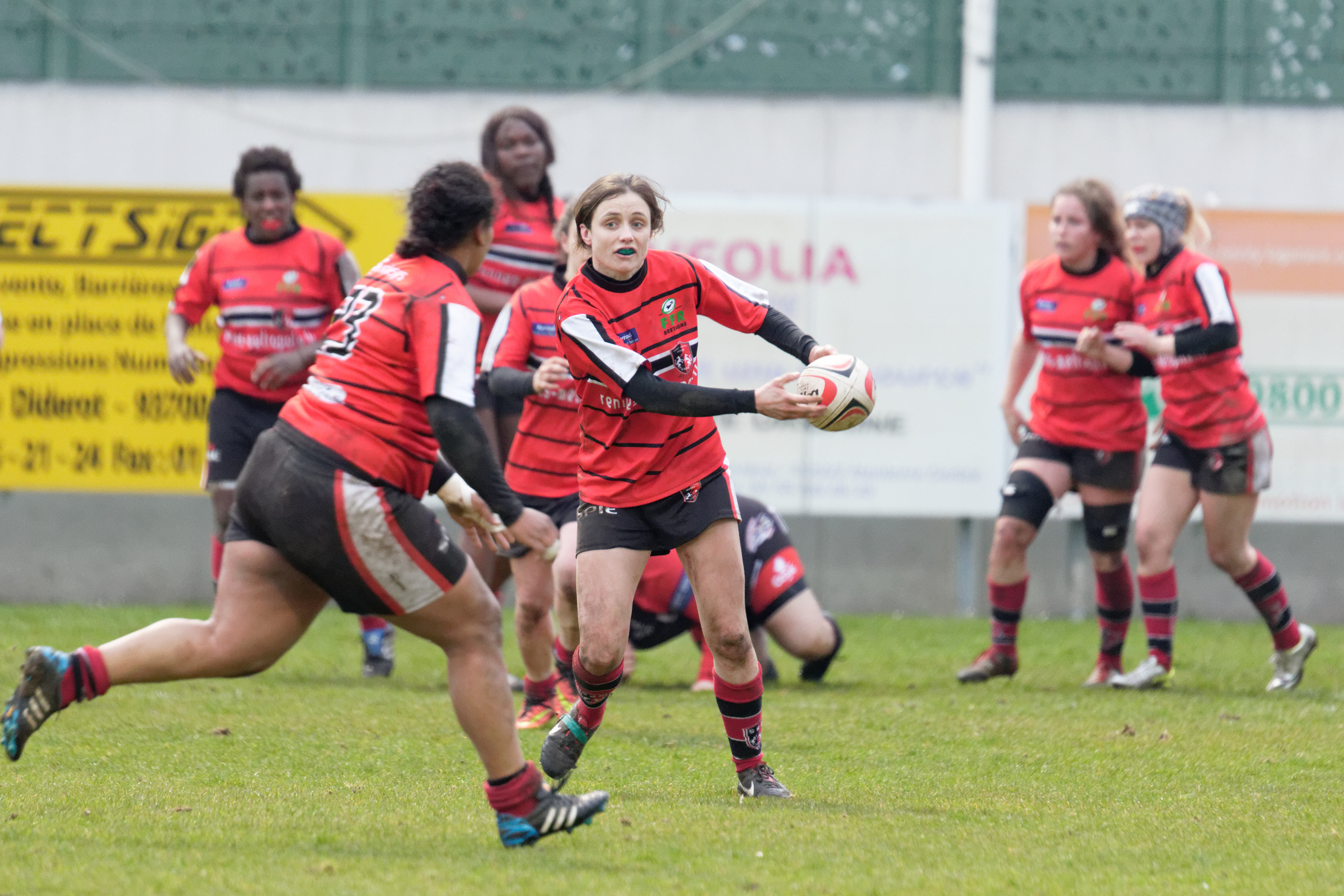 Bobigny vs Rennes, Top 8, 4th April 2015.